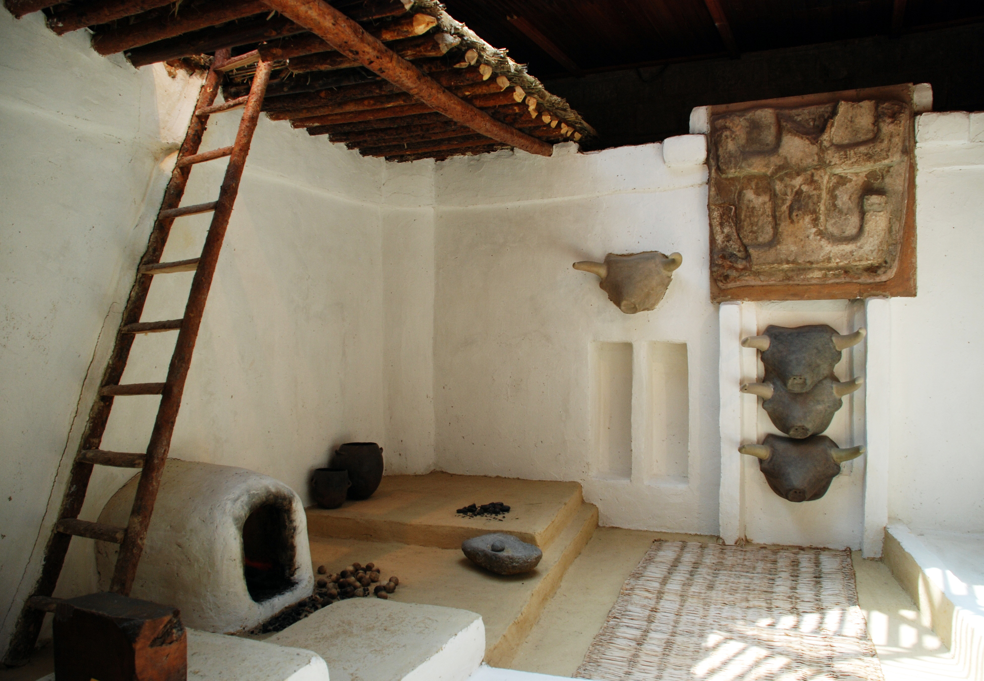 Catal Höyük Room Copy